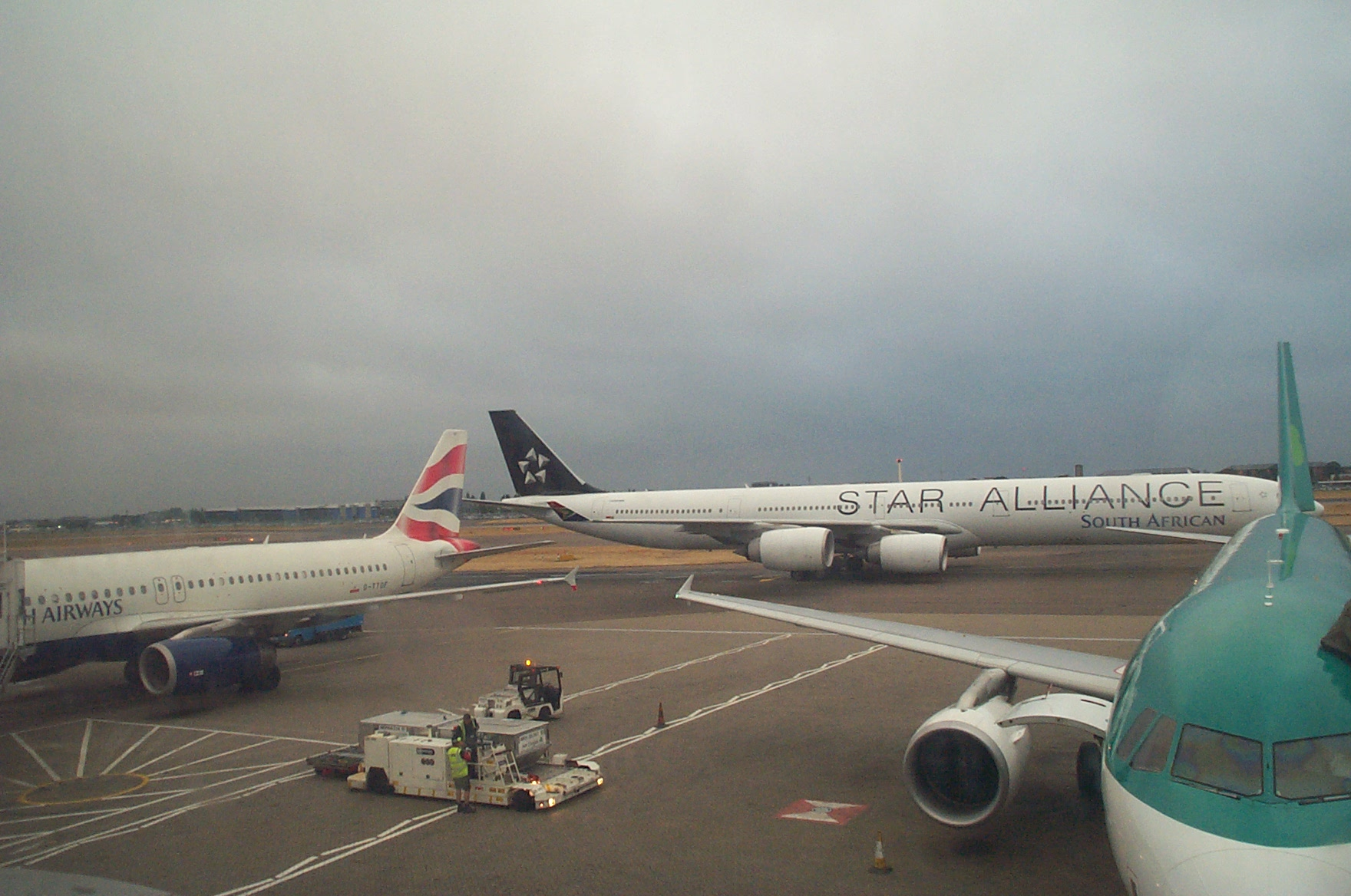 South African Airways Airbus A340-600 with Star Alliance livery, at Heathrow Airport